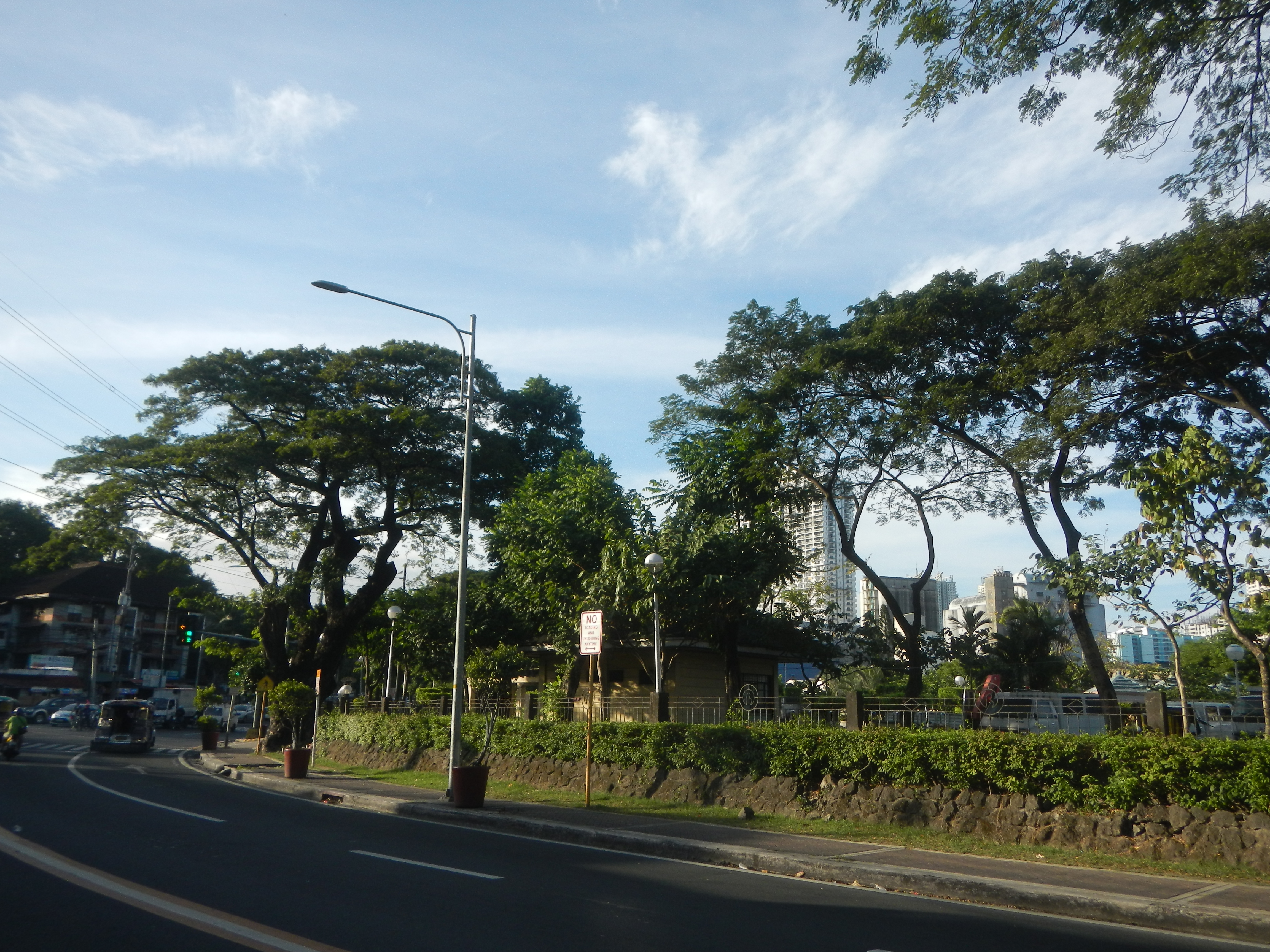 Old trees, fences, amphitheater pedestrian foodbridges - Makati Park & Garden (J. P. Rizal Extension, District II, West Rembo, Makati City) J. P. Rizal Extension, District II, Makati City 14°33'46"N 121°3'34"E J. P. Rizal Street 14°34'18"N 121°0'57"E District II, List of barangays of Metro Manila, Legislative districts of Makati, Barangays Cembo 14°33'54"N 121°3'2"E West Rembo 14°33'40"N 121°3'36"E East Rembo 14°33'11"N 121°3'42"E Barangay Northside, Makati City - Barangay 30 14°33'48"N 121°3'15"E Makati City (beside and bounded, upon the Pasig City Welcome - Boundary Buting Monument in Kalayaan Avenue, East Rembo, Makati City in List of barangays of Metro Manila, Barangay Buting 14°33'19"N 121°4'8"E Pasig City (Note: Judge Florentino Floro, the owner, to repeat, Donor Florentino Floro of all these photos hereby donate gratuitously, freely and unconditionally all these photos to and for Wikimedia Commons, exclusively, for public use of the public domain, and again without any condition whatsoever).